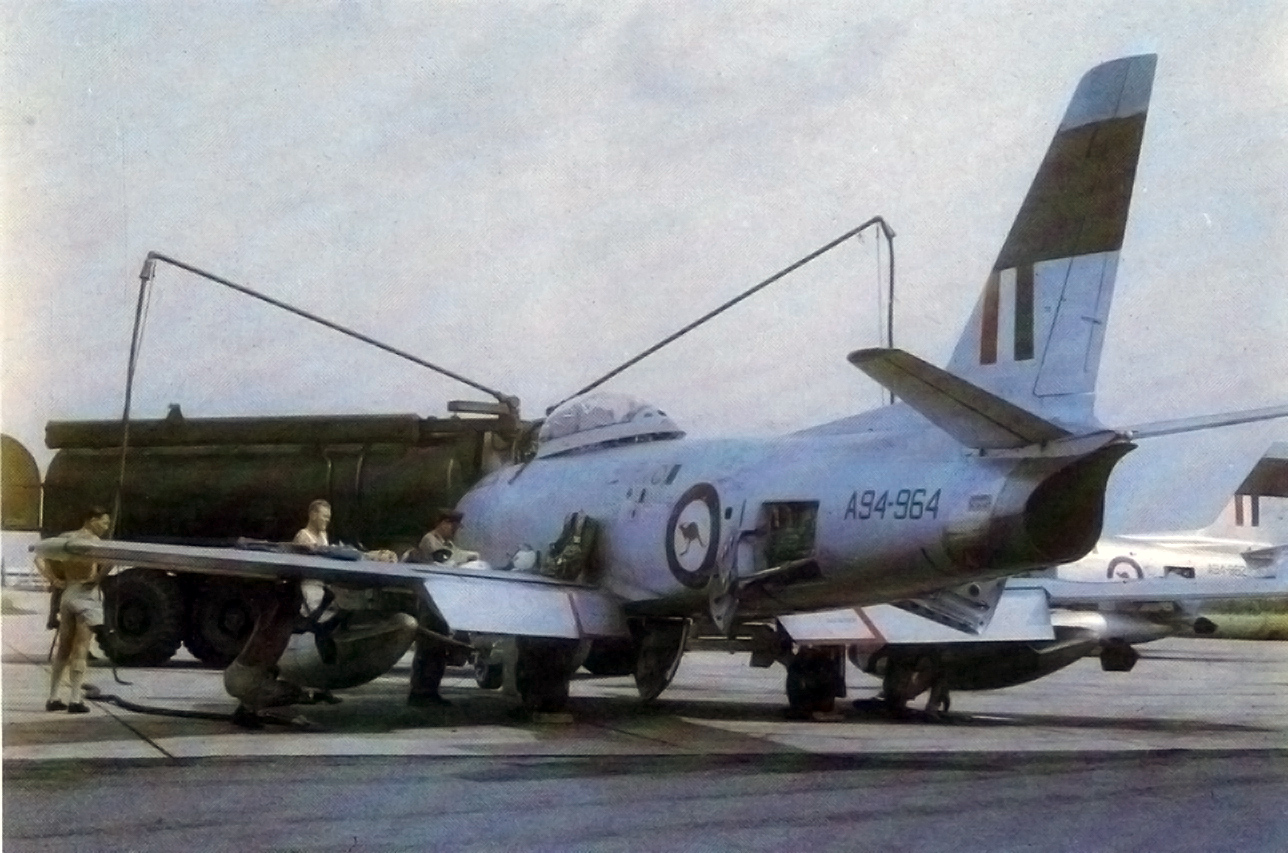 Royal Australian Air Force Commonwealth Aircraft Sabre Mk.32 fighters (A94-964, A94-982) are prepared for joint exercises with the U.S. Air Force and the Royal Thai Air Force in the early 1960s. A94-964 crashed in Thailand in April 1963 and was used for spare parts, A94-982 is today on display at the RAAF Forest Hill Museum, Wagga Wagga, New South Wales (Australia).